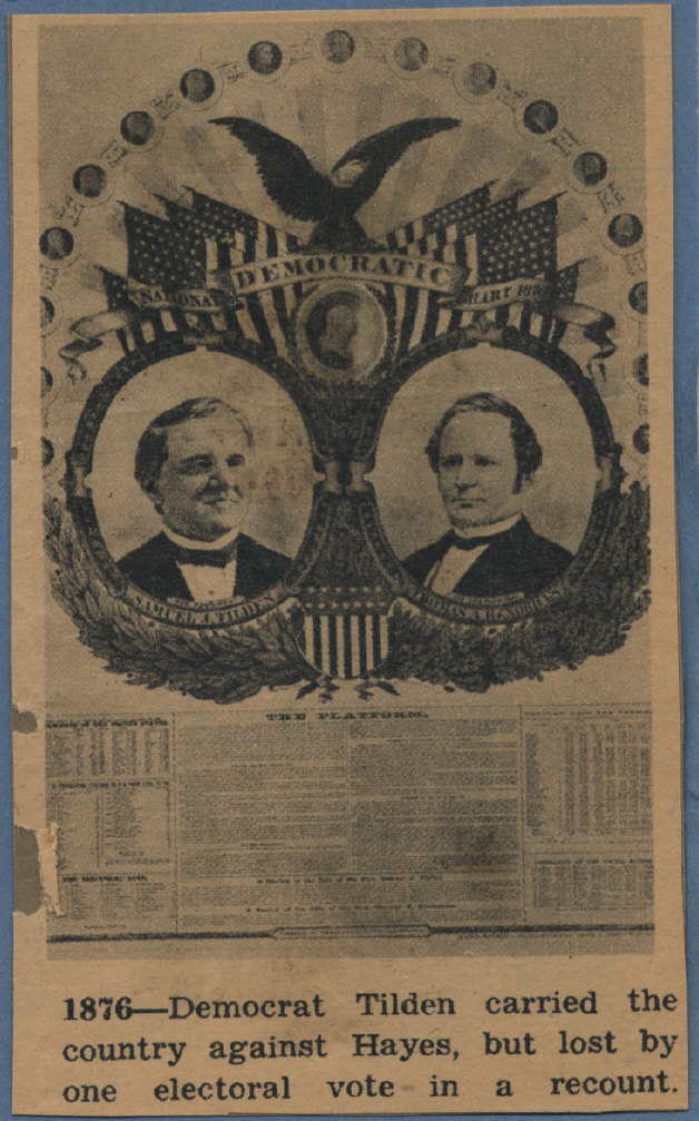 Collection: Cornell University Collection of Political Americana, Cornell University Library Repository: Susan H. Douglas Political Americana Collection, #2214 Rare & Manuscript Collections, Cornell University Library, Cornell University Title: Tilden-Hendricks Promotional and Satirical Items, ca. 1876-1880 Political Party: Democratic Election Year: 1880 Date Made: ca. 1876-1880 Measurement: Mount: 5 1/8 x 6 1/8 in.; 13.0175 x 15.5575 cm Classification: Ephemera Persistent URI: There are no known U.S. copyright restrictions on this image. The digital file is owned by the Cornell University Library which is making it freely available with the request that, when possible, the Library be credited as its source.